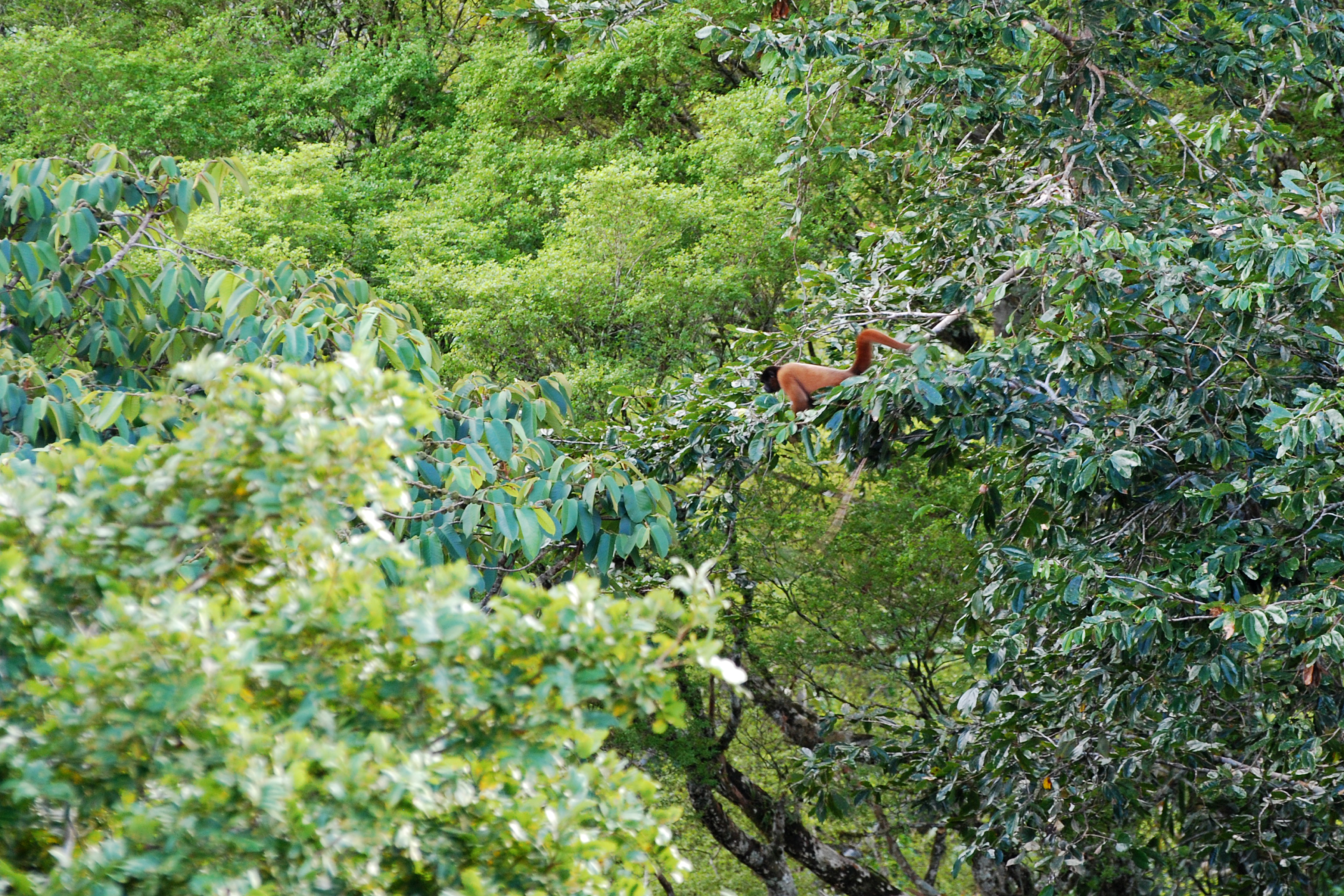 Atelidae: Lagothrix lagotricha Found in Yasuní National Park, Ecuador